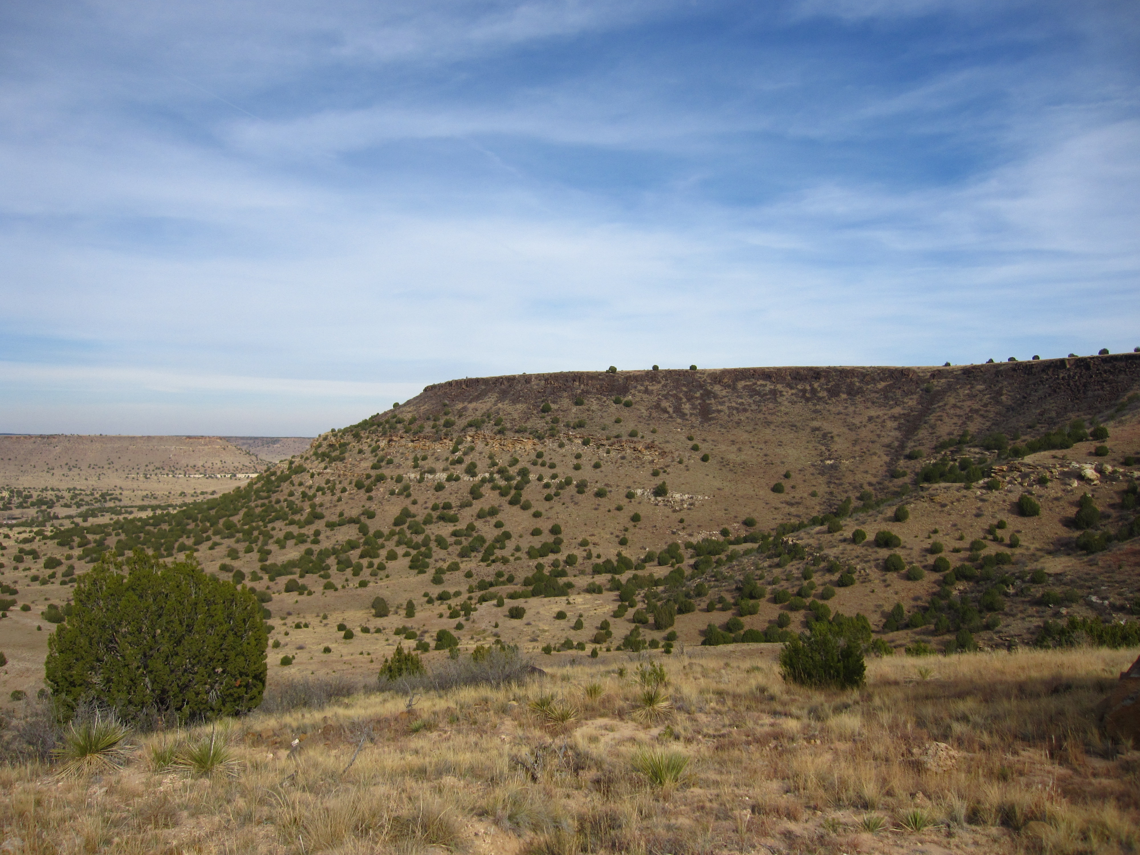 Black Mesa, the tallest point in Oklahoma (actual highest point off image to left).